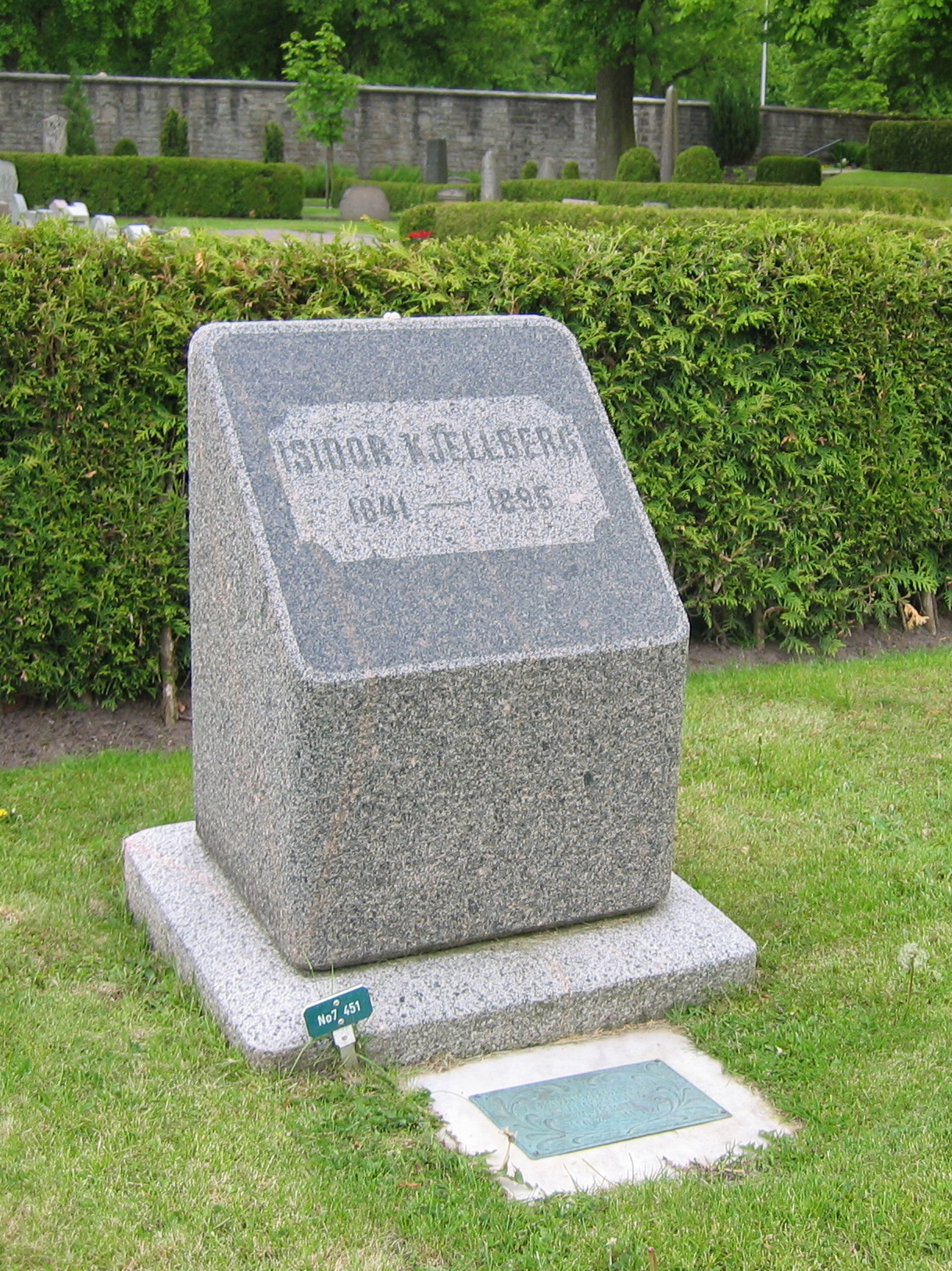 Grave of Isidor Kjellberg, Swedish journalist at Östgöten, in Linköping. The small plaque in front of the stone is shown in Image:LA2 Isidor Kjellberg gravplatta.jpg